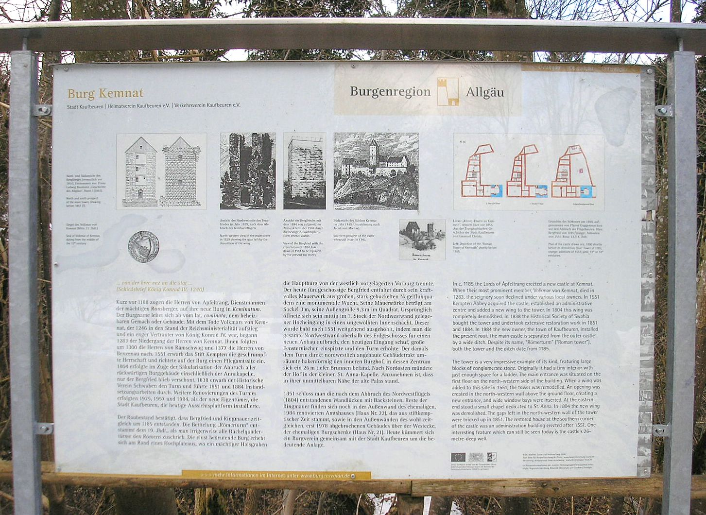 Kemnat castle (Kleinkemnat, Stadt Kaufbeuren, Allgäu, Bavaria). Information board at the castle